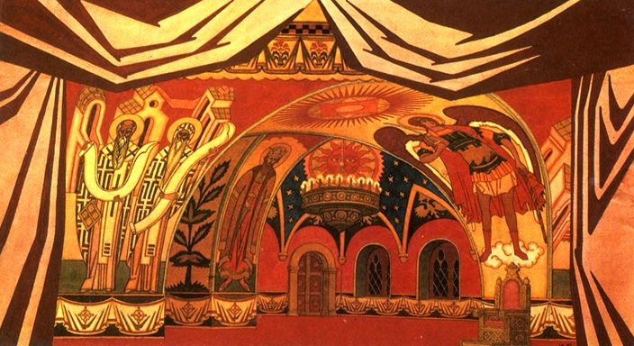 THE CHAMBERS IN THE TSAR'S TOWER. Stage-set design for Act Four of the opera "The Tsar's Bride" by Rimsky-Korsakov. 1930